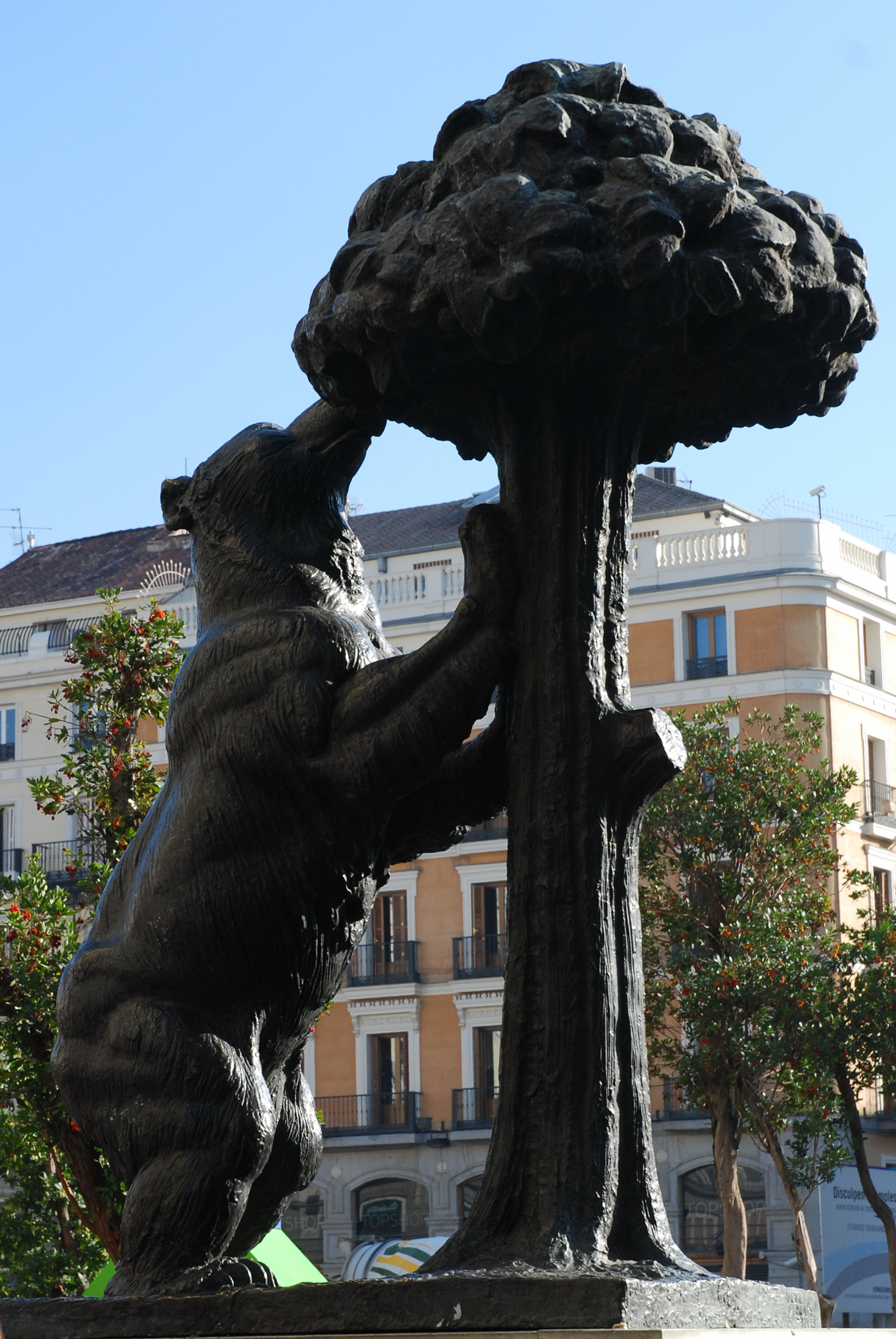 El Oso y el Madroño ("The Bear and the Strawberry Tree") at the Puerta del Sol (square) in Madrid (Spain). Heraldic symbol of the city, made of bronze by sculptor Antonio Navarro Santafé in 1966 and inaugurated on January 10, 1967.